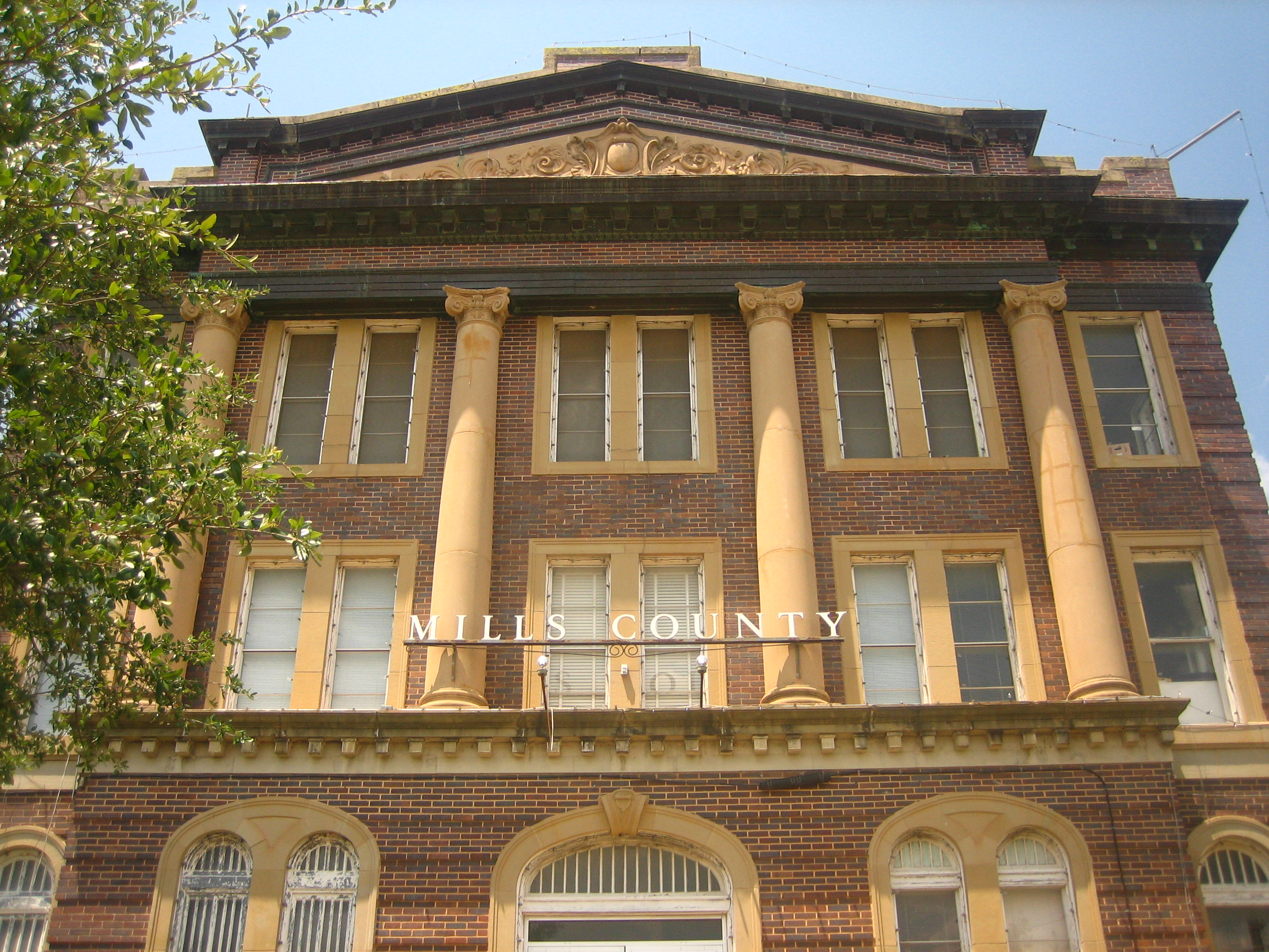 The Mills County Courthouse in Goldthwaite, Texas, United States. I took photo on July 17, 2008.Billy Hathorn (talk) 04:26, 27 November 2008 (UTC)